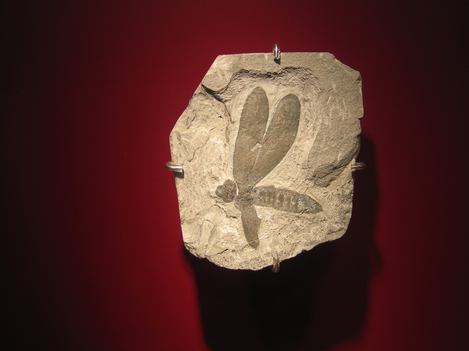 Caloneura dawsoni fossil in CosmoCaixa, Barcelona.